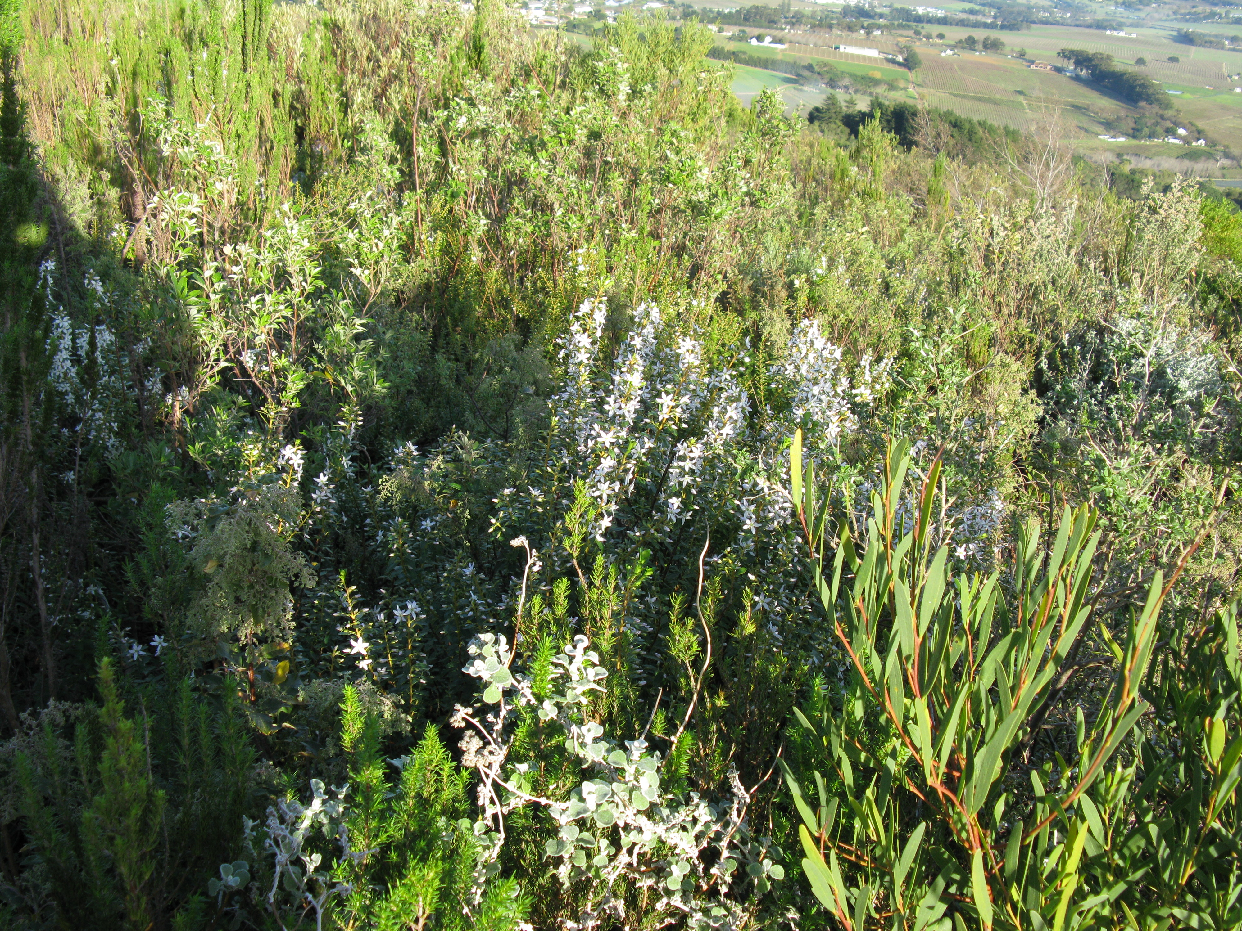 Oval leaf Buchu (Afrikaans boegoe). Taken in typical fynbos on the slopes of Helderberg